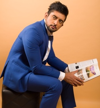 Abhaas, Actor, India